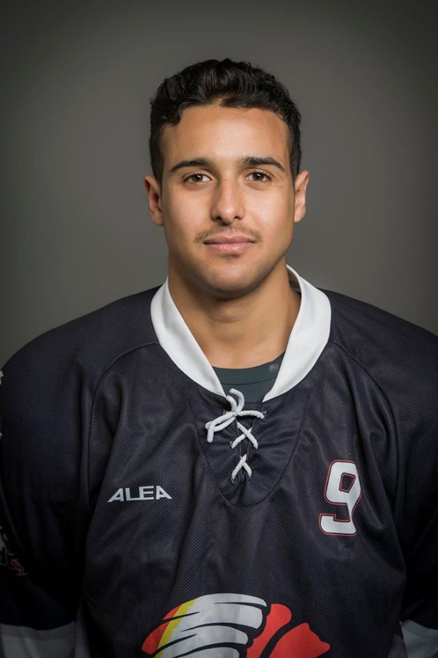 Wehebe Darge with Chiefs Leuven